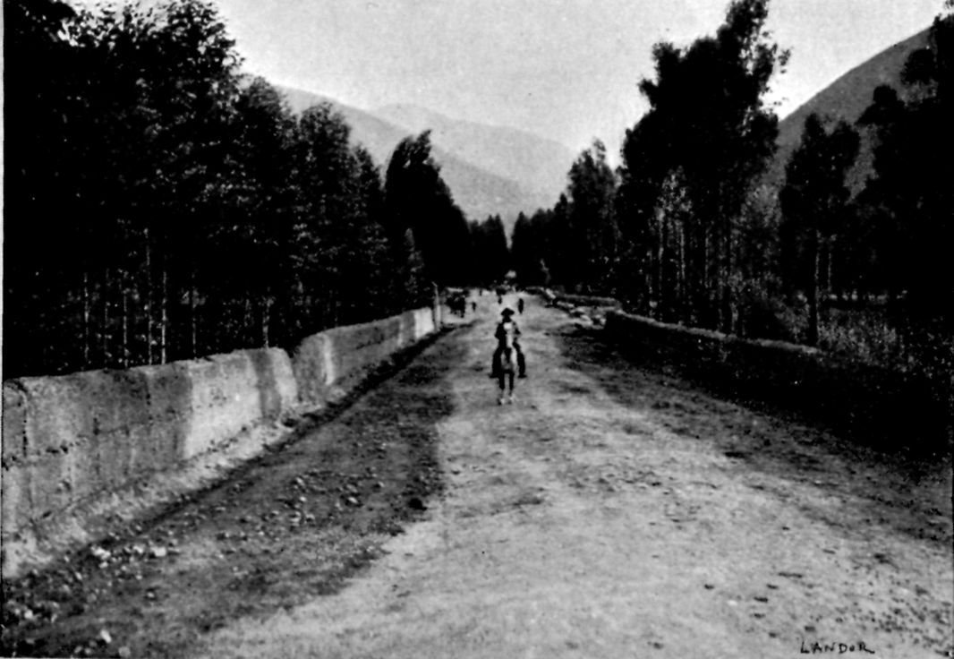 Avenue of Eucalypti ca. 1913 near Tarma.